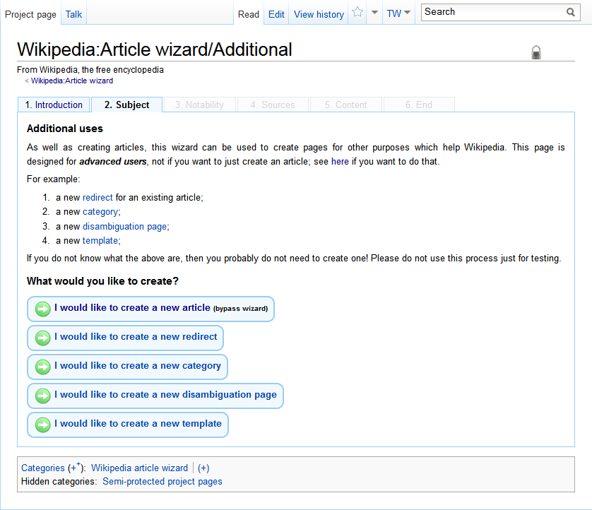 Screenshot of Article wizard/Additional page